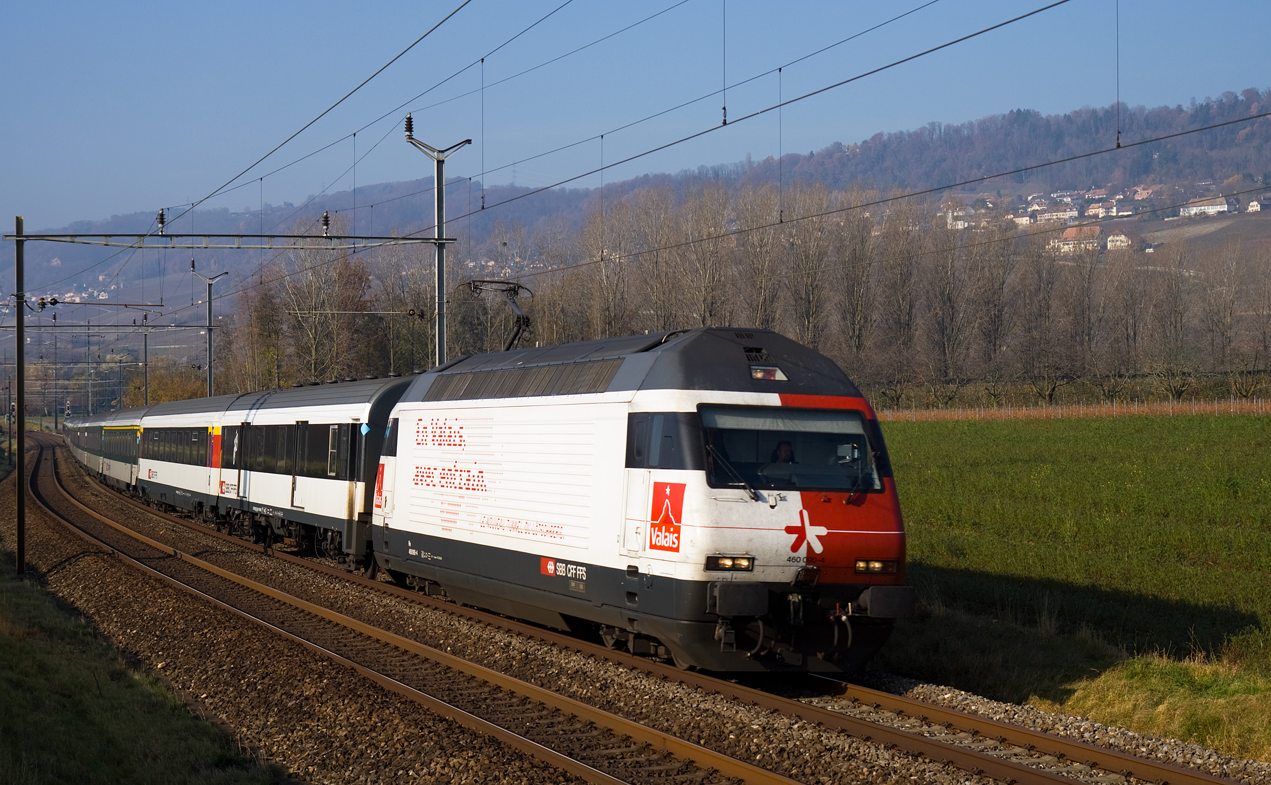 SBB Re 460 promoting the new Lötschberg base tunnel, between Geneva and Lausanne. The text reads "En Valais, avec entrain. Le nouveau tunnel du Lötschberg.", which roughly translates to "To the Valais with drive. The new Lötschberg tunnel.". "entrain" is a pun which, while it literally means "drive", also contains the word "train" which has the same meaning in french as in english.